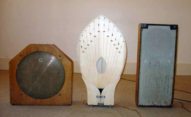 Photograph of three loudspeakers (called diffusers) used by the ondes Martenot. left to right D3: metallic (French: métallique) D4: palm (French: palme) D1: principal (French: principal) (D2: resonance (French: résonance) is not in this photograph) Source: Japanese-language Wikipedia (Ondes-diffuseurs.jpg)